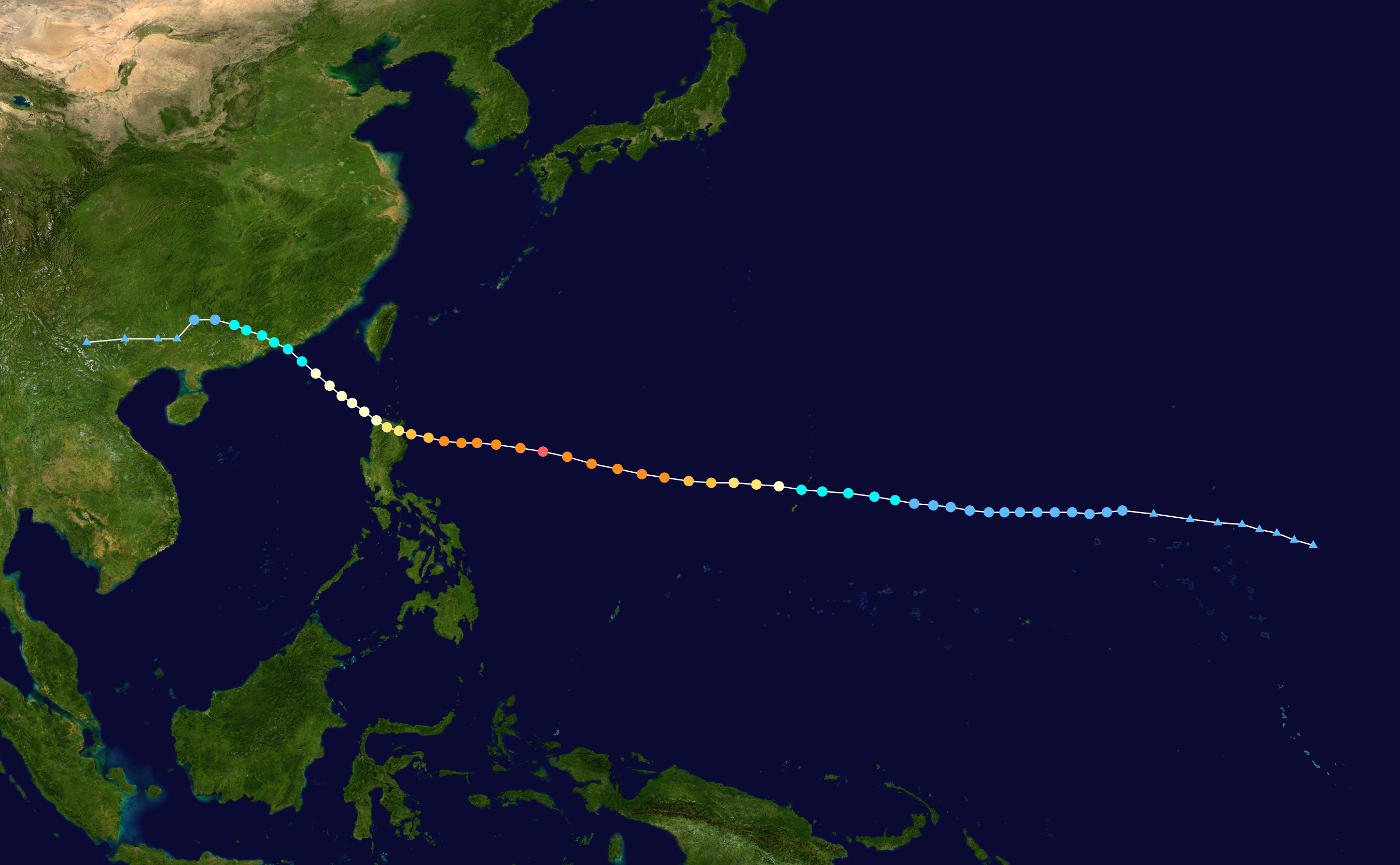 Typhoon Peggy 1986 track. Uses the color scheme from the Saffir-Simpson Hurricane Scale.